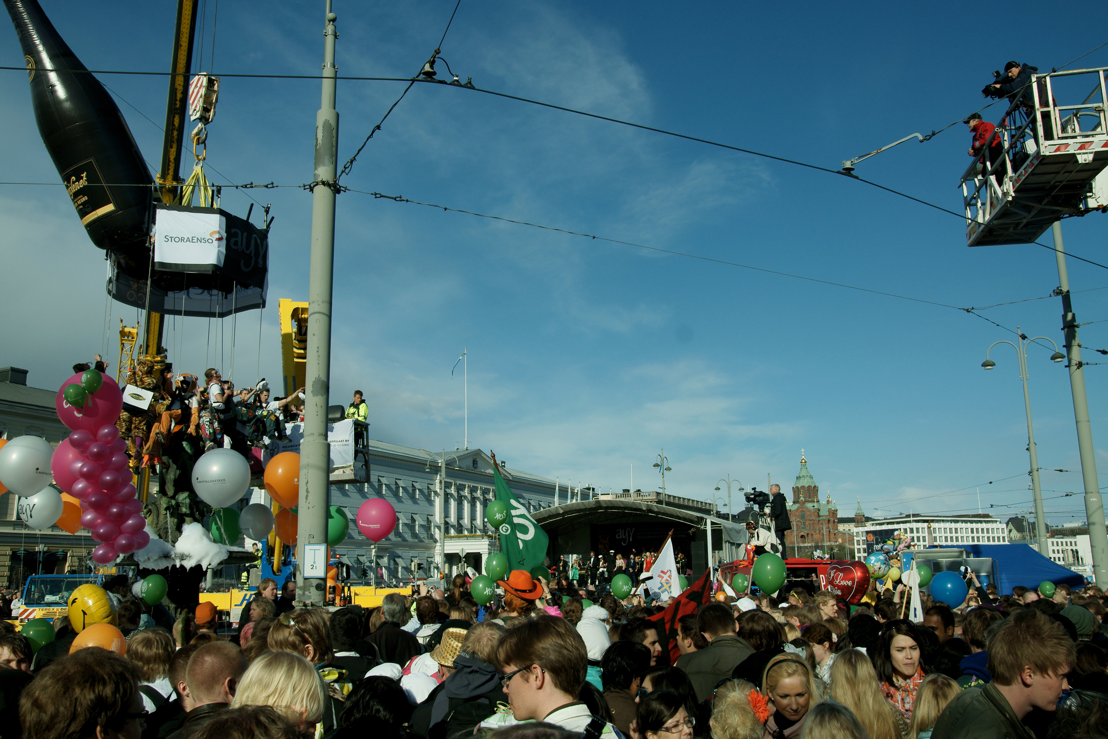 Havis Amanda statue in Helsinki, Finland gets her student cap on "vappu" eve (30th of April)